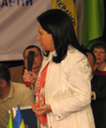 Liudmyla Suprun, Ukrainian politician, former member of the Ukrainian Verkhovna Rada